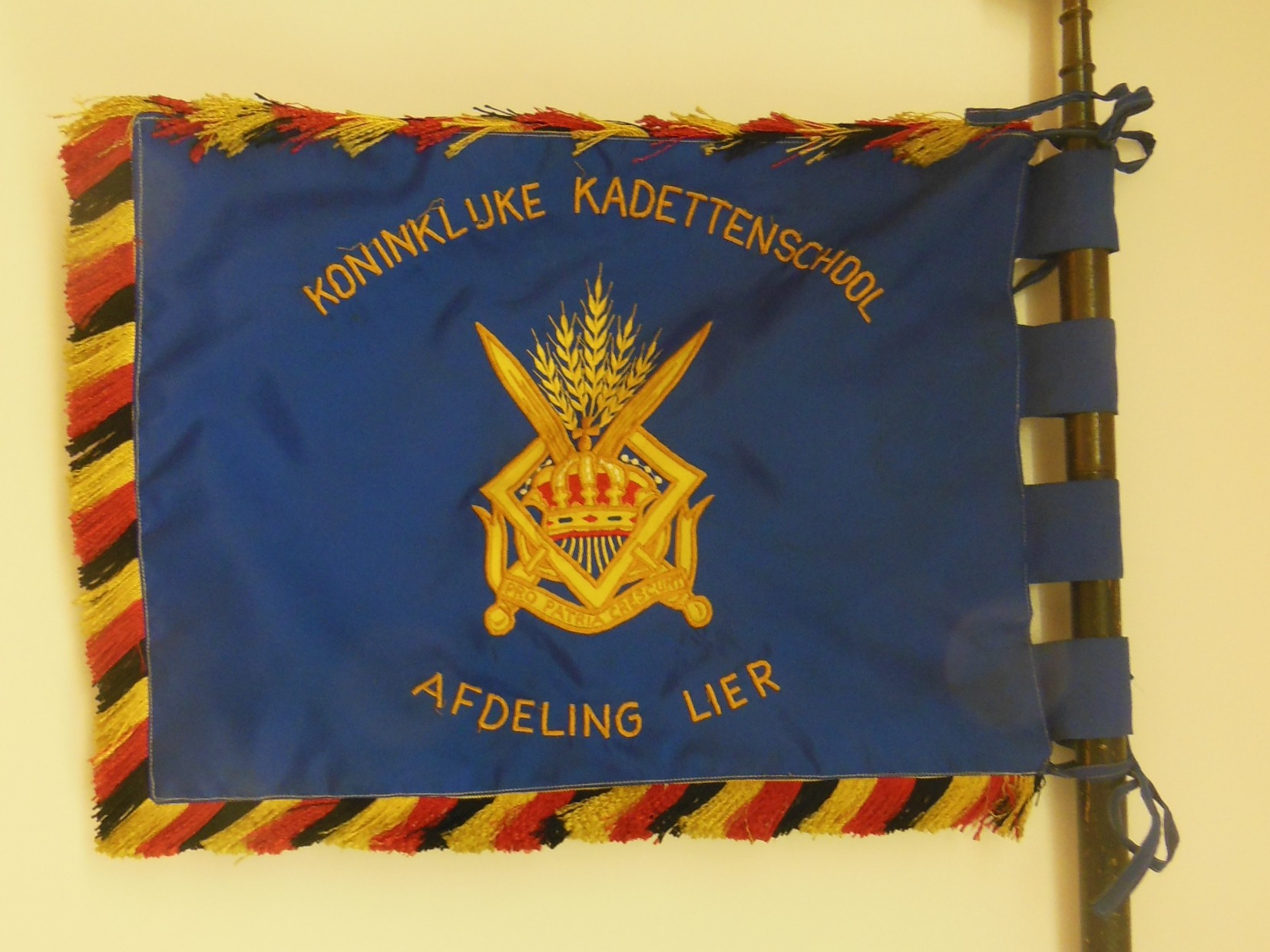 A pennant with the coat of arms of the Belgian Royal Cadet School and inscriptions referring to the department at Lier